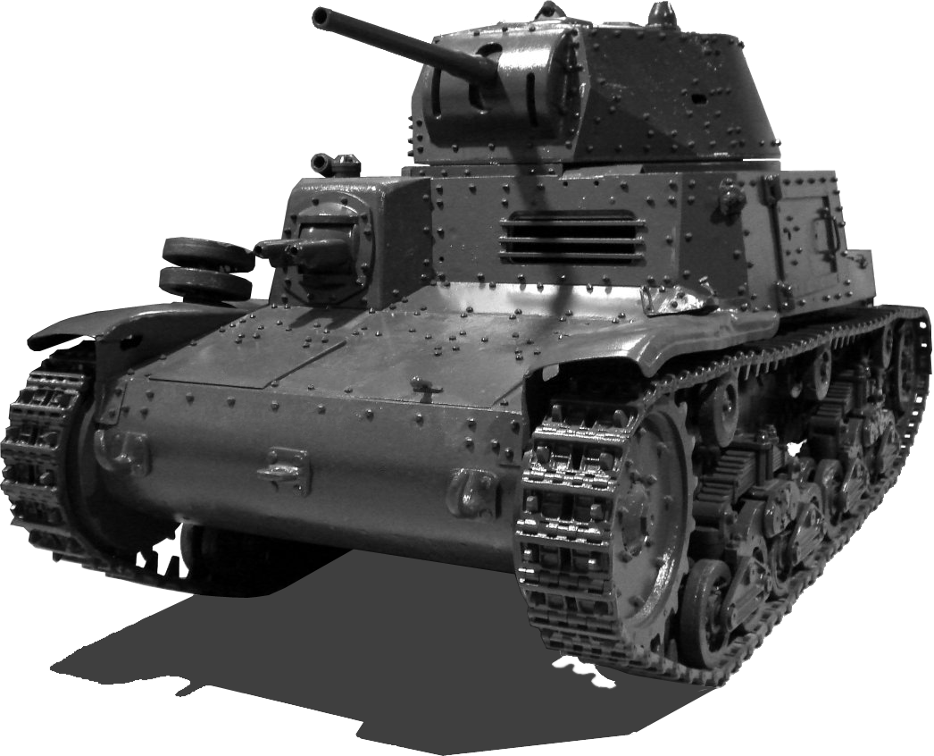 Italian M13/40 light tank at Base Borden Military Museum